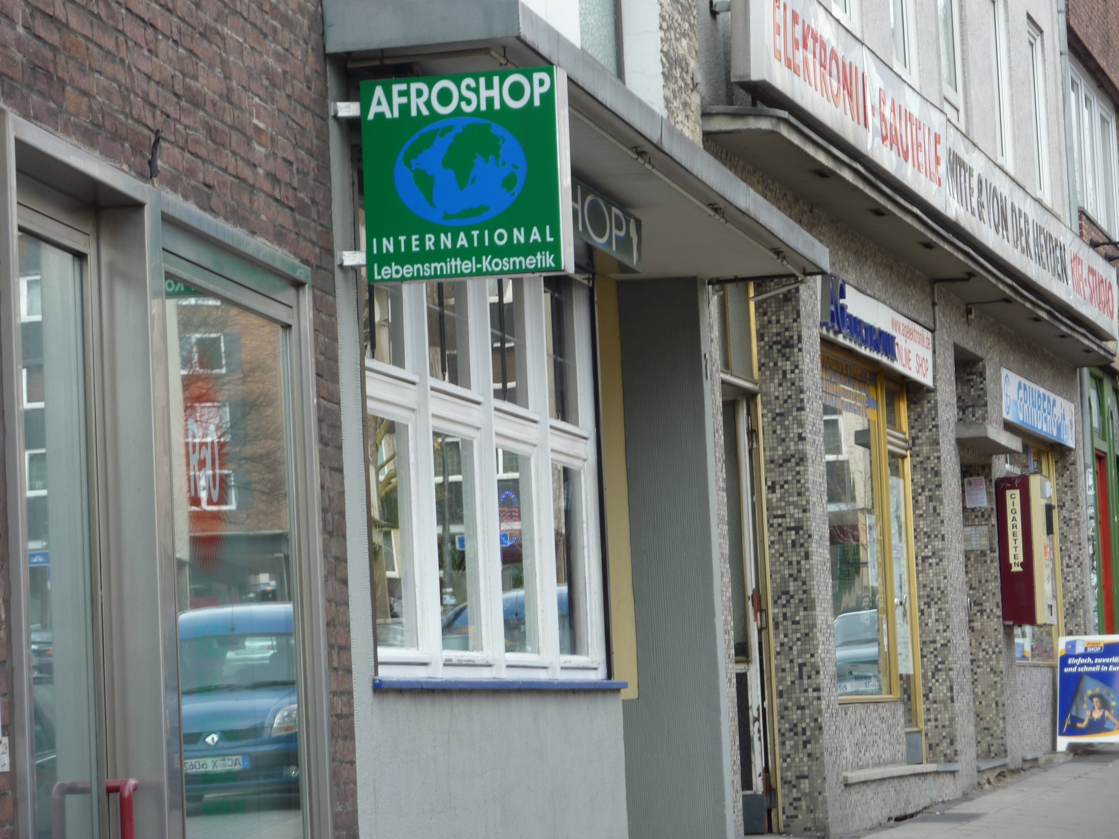 Afroshop in Aachen